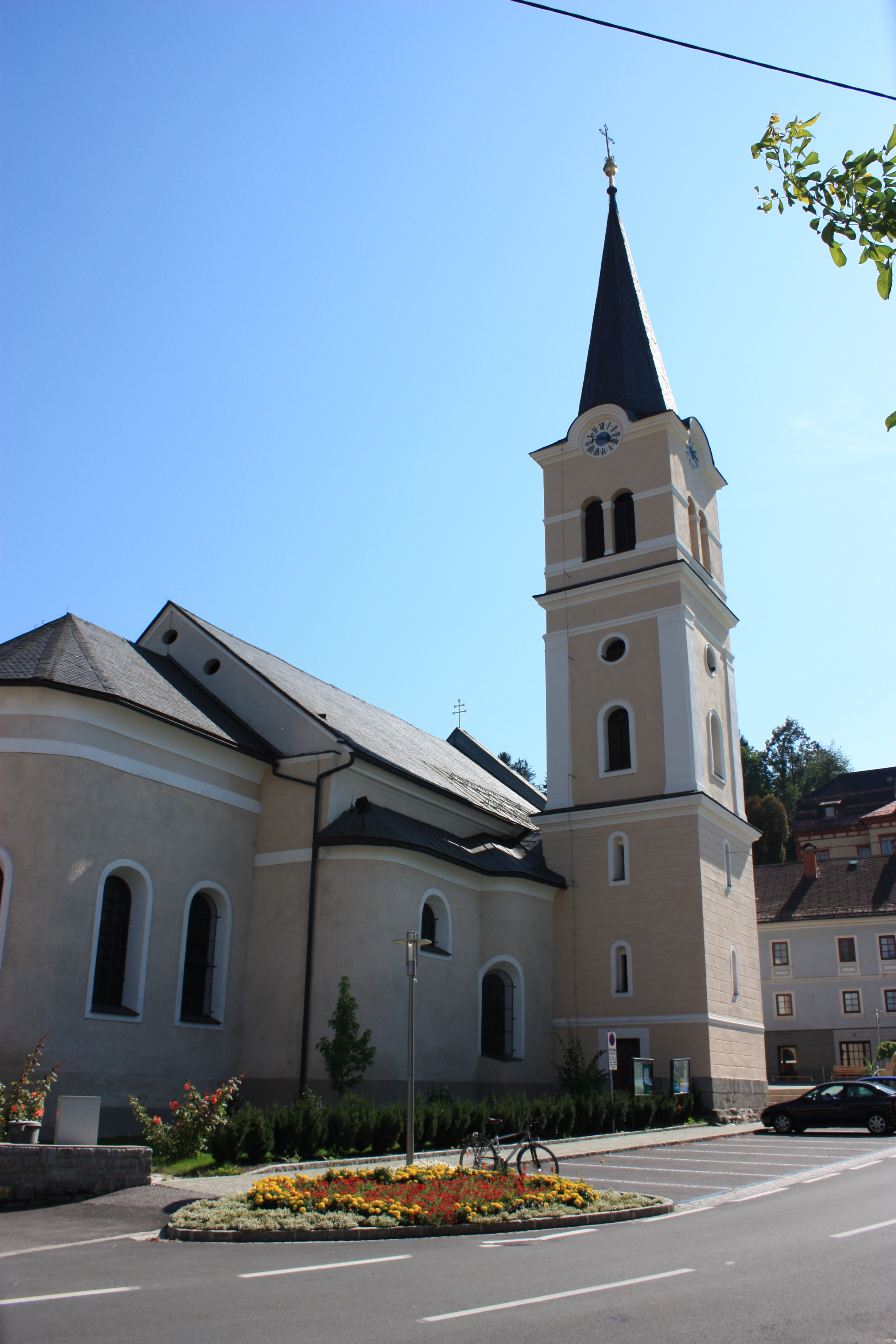 Parish church Saint Paternianus Locality: Paternion Community:Paternion